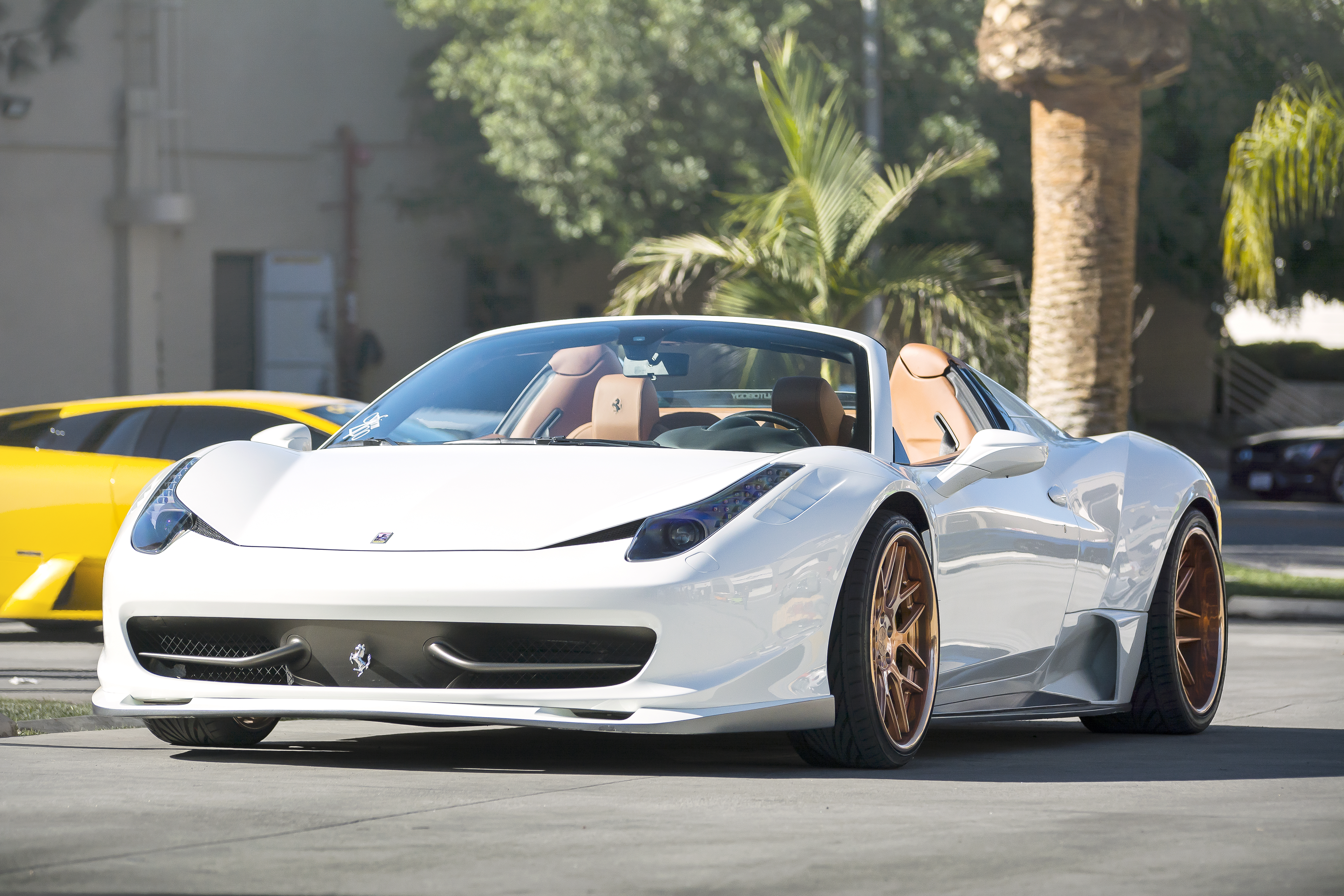 This widebody (not Liberty Walk) Ferrari 458 Italia Spider is a little much but I'd rather see this instead of a regular red one.